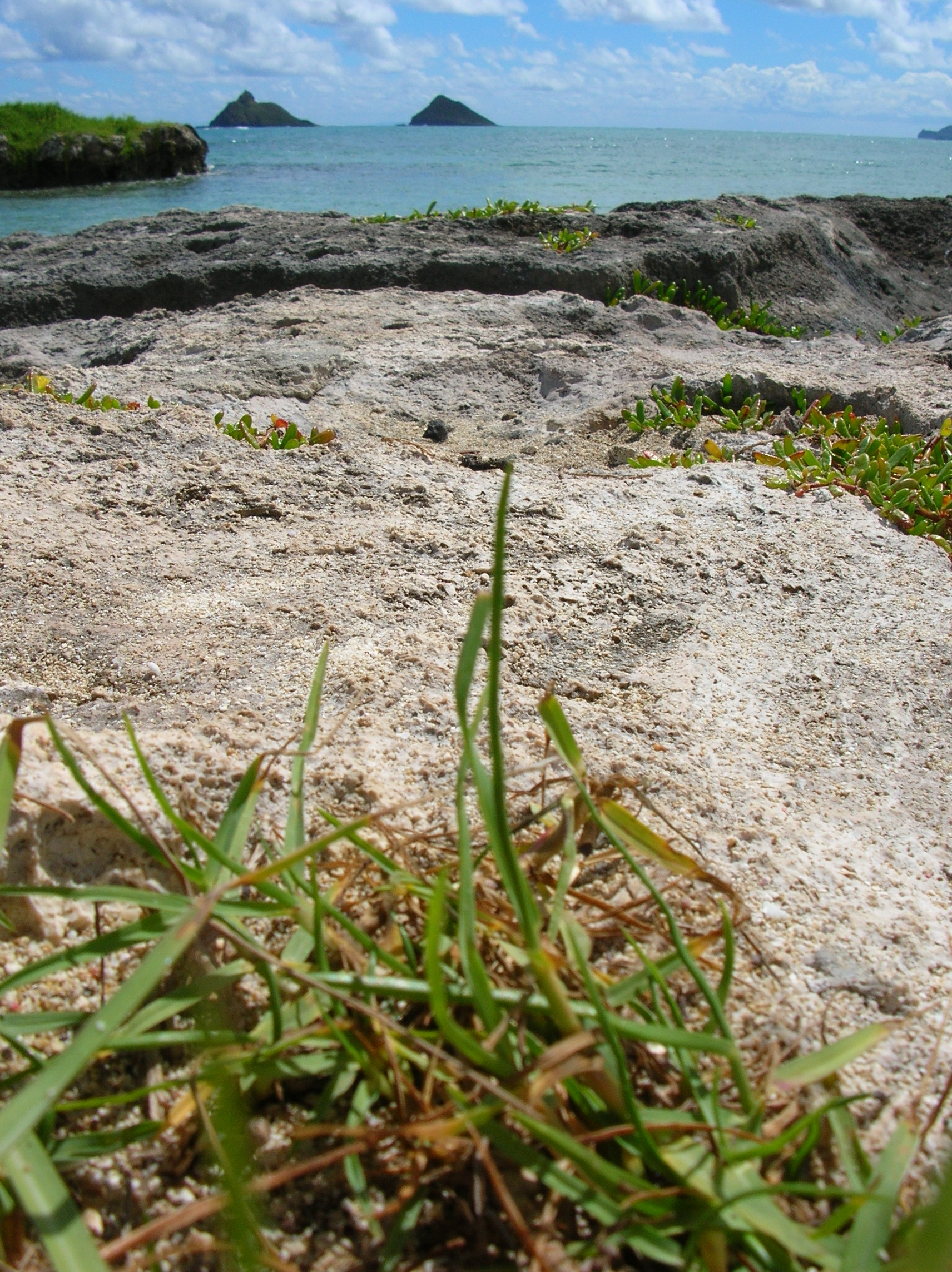 Paspalum vaginatum (habit). Location: Oahu, Popoia